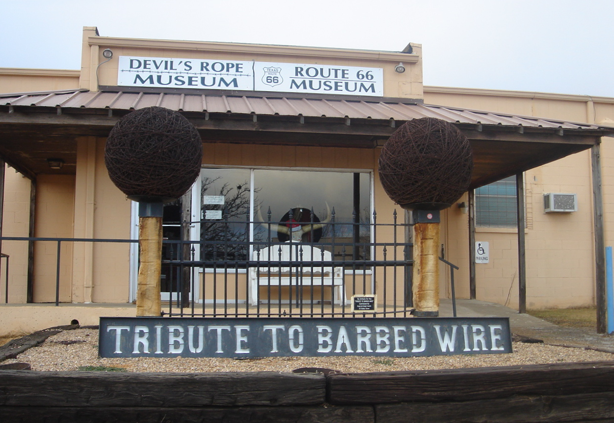 The Devils Rope Barbed Wire Museum, 100 Kingsley St. in McLean, Texas, USA.Sony Cyber-shot DSC-T7